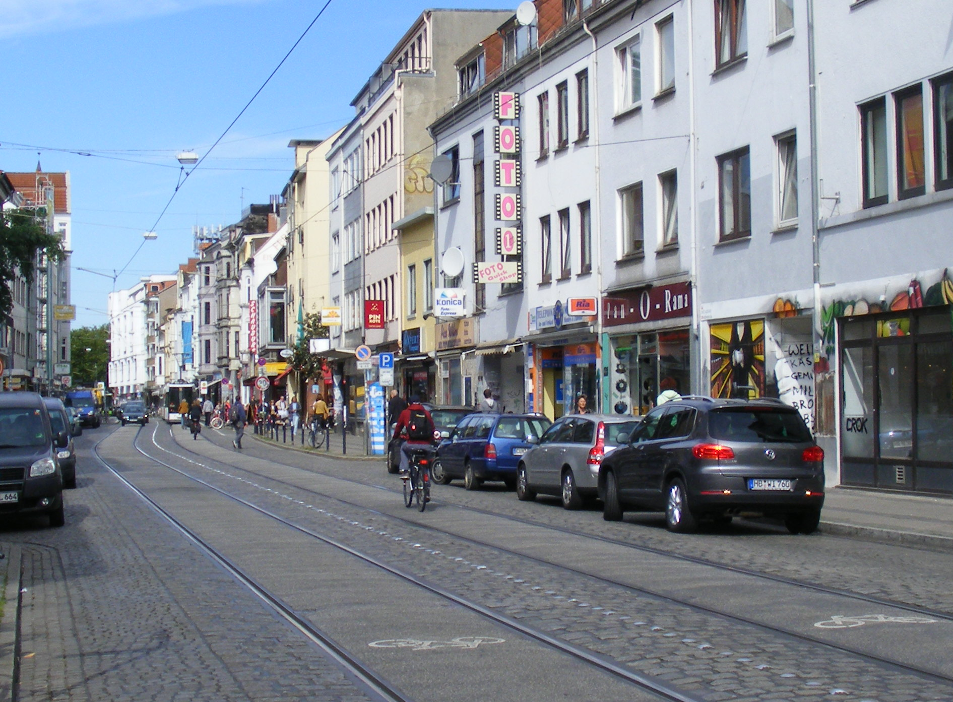 Bremen (Germany), Vor dem Steintor: Integrative cycling anhancement fitting the principles of US and Canadian shared lanes